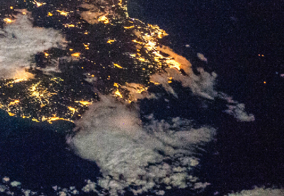 Sicilia orientale